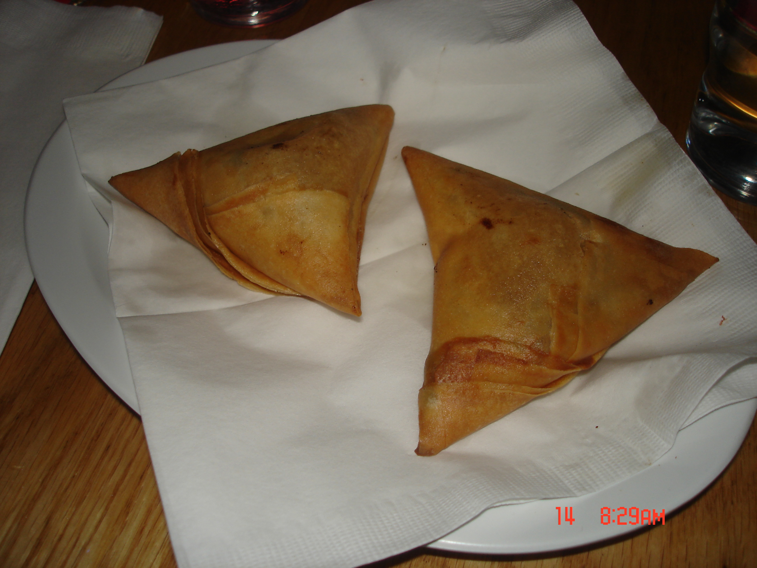 Sambusa pictured in an Ethiopian restaurant in USA